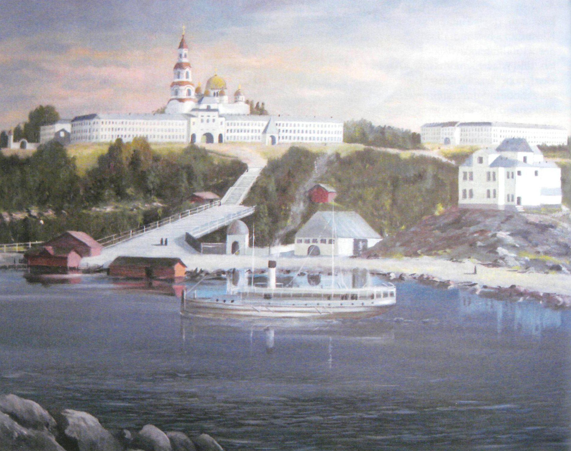 The Valaam monastery, with the Transfiguration Cathedral in the background.